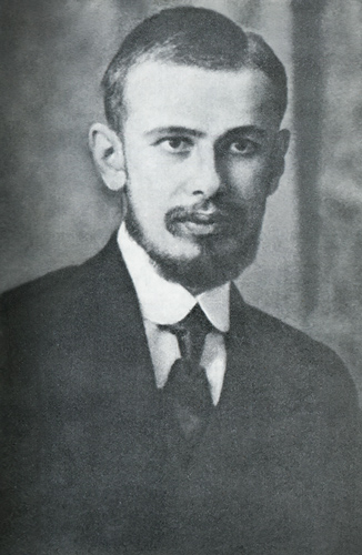 Yevgeny Dmitrievich Polivanov - Soviet linguist, orientalist and polyglot.